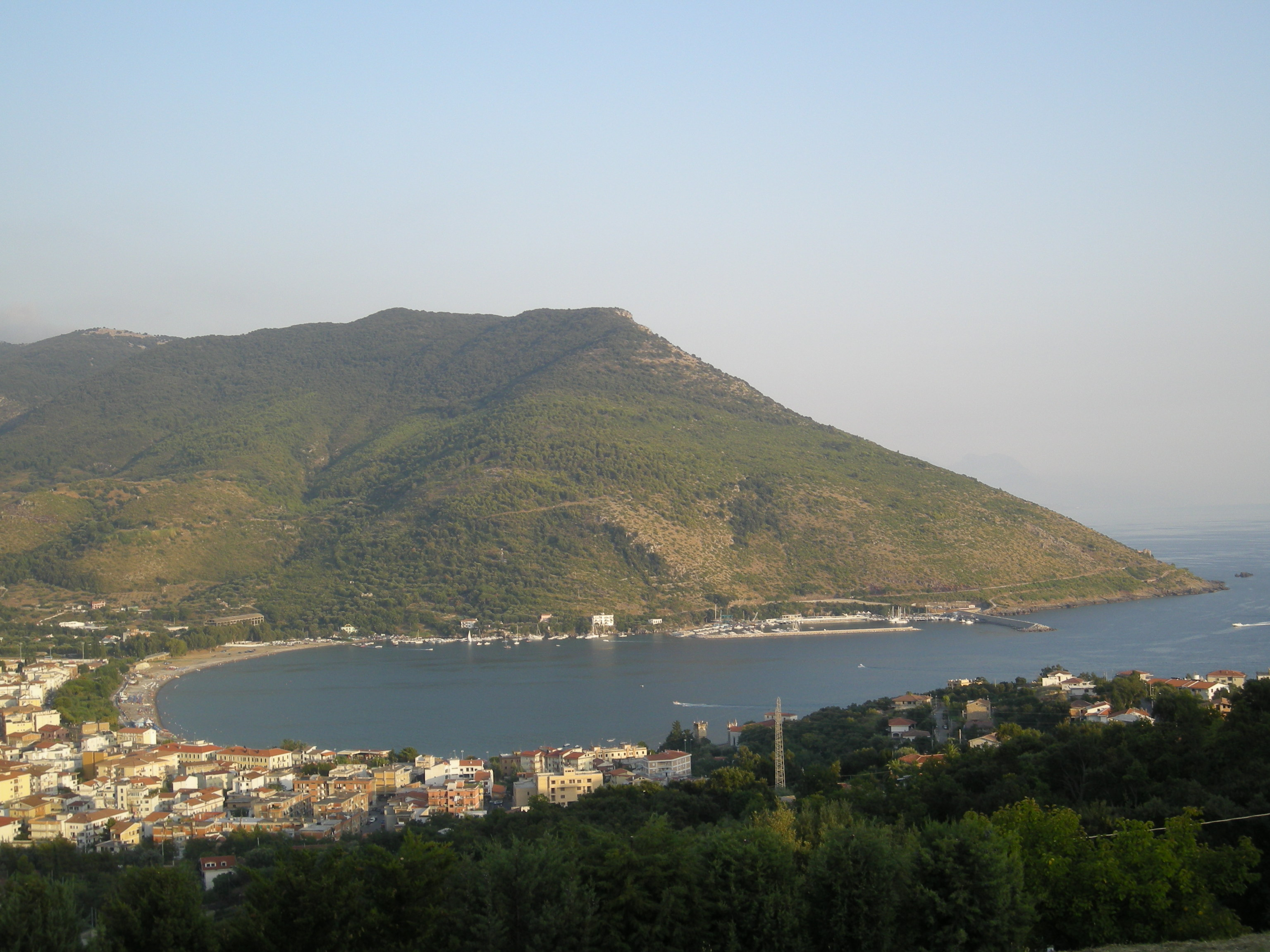 View of Sapri's bay